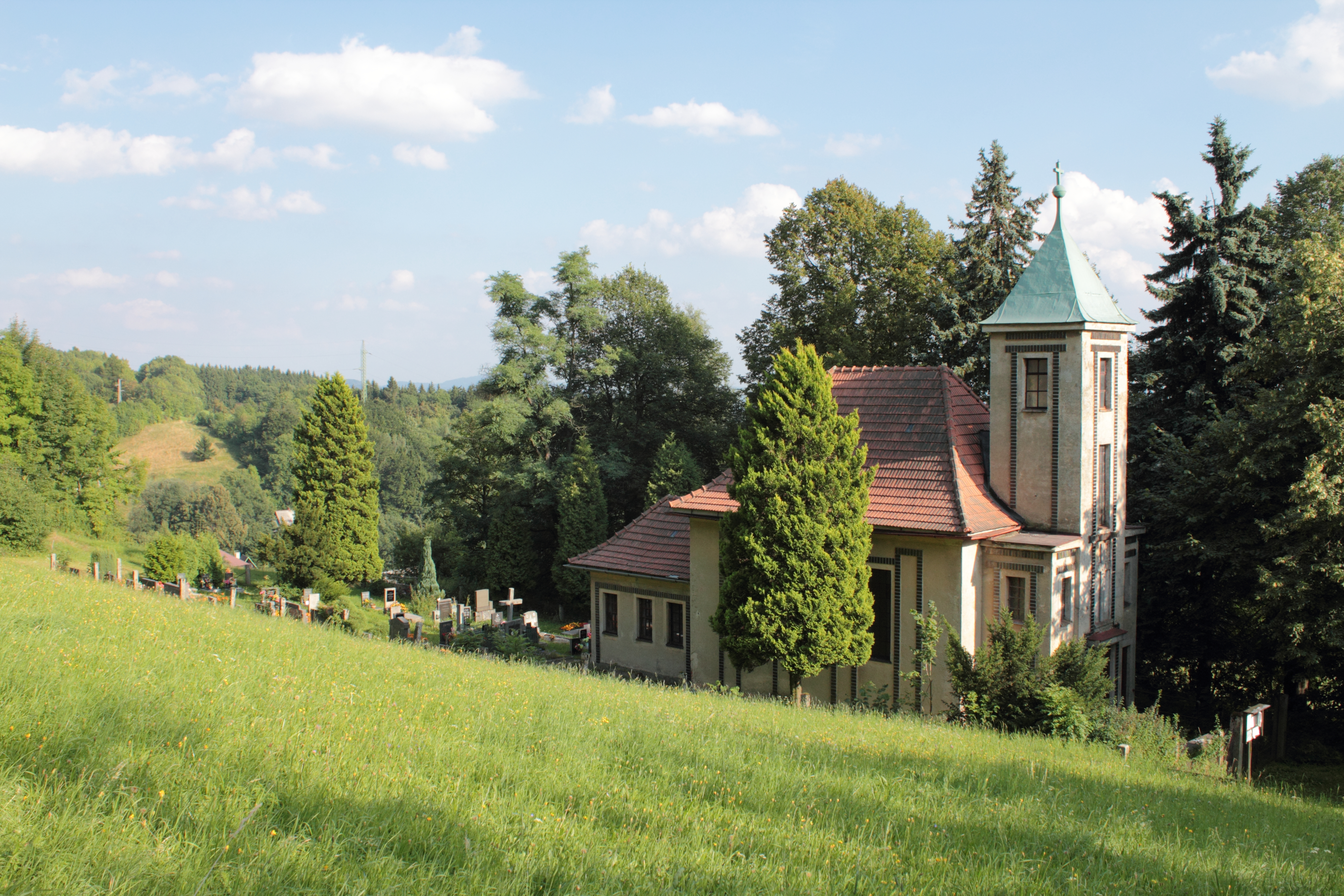 Church, Rašovka